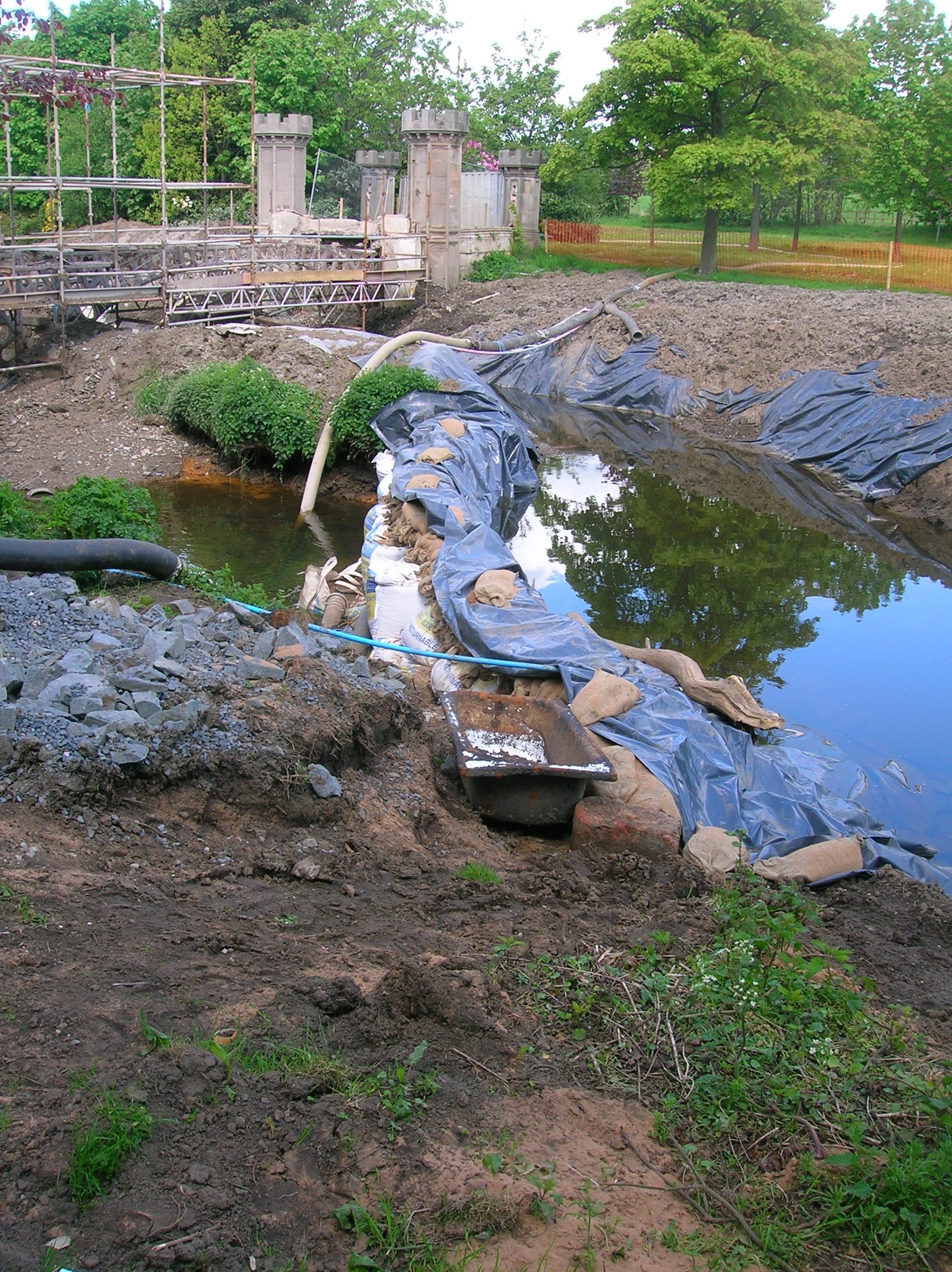 Temporary dam at the Tournament bridge, Eglinton, Irvine, Scotland.